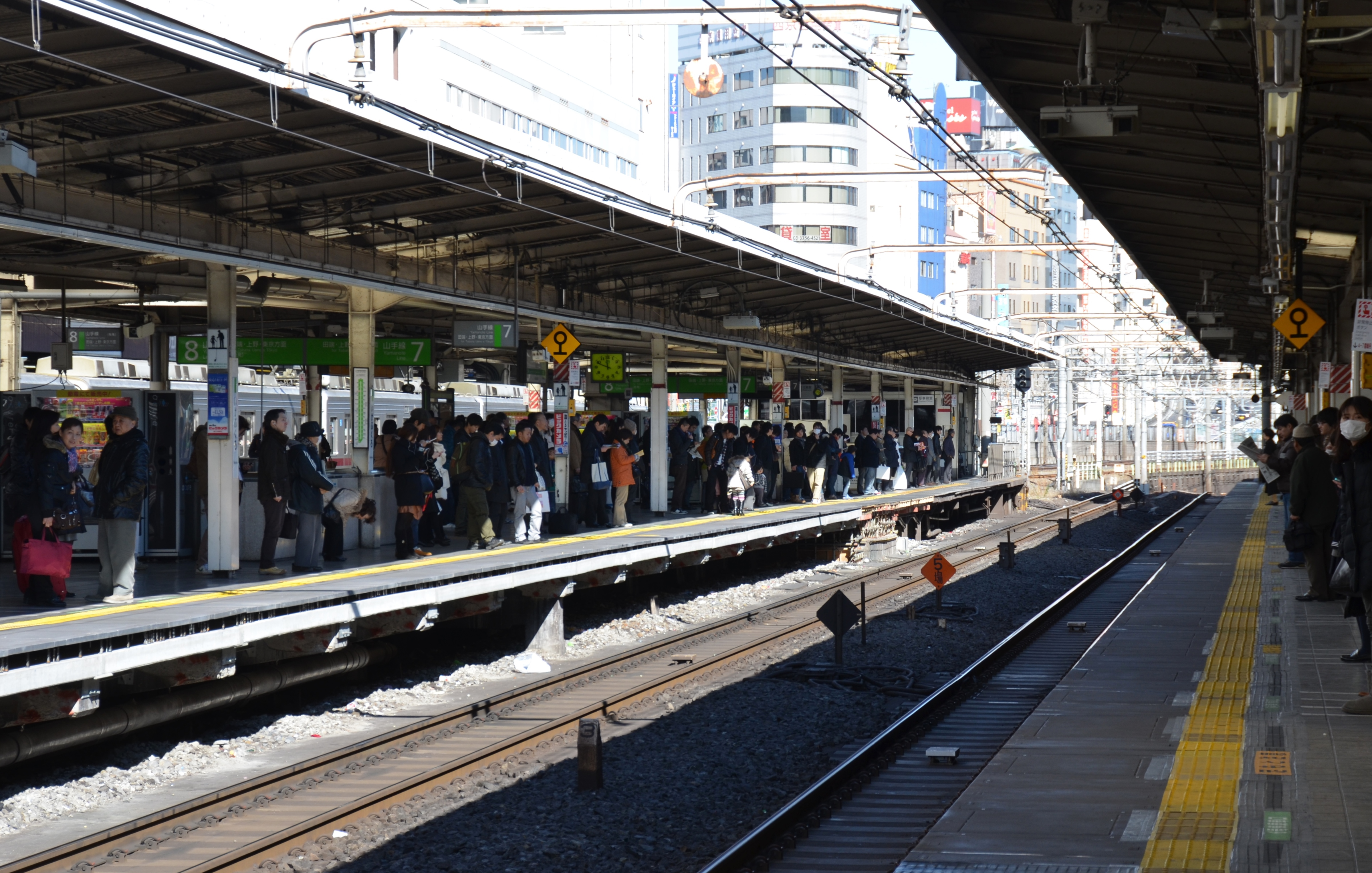 Yamanote Line platform 6 at Ikebukuro Station in Tokyo